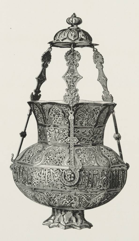 A lamp from a mosque.